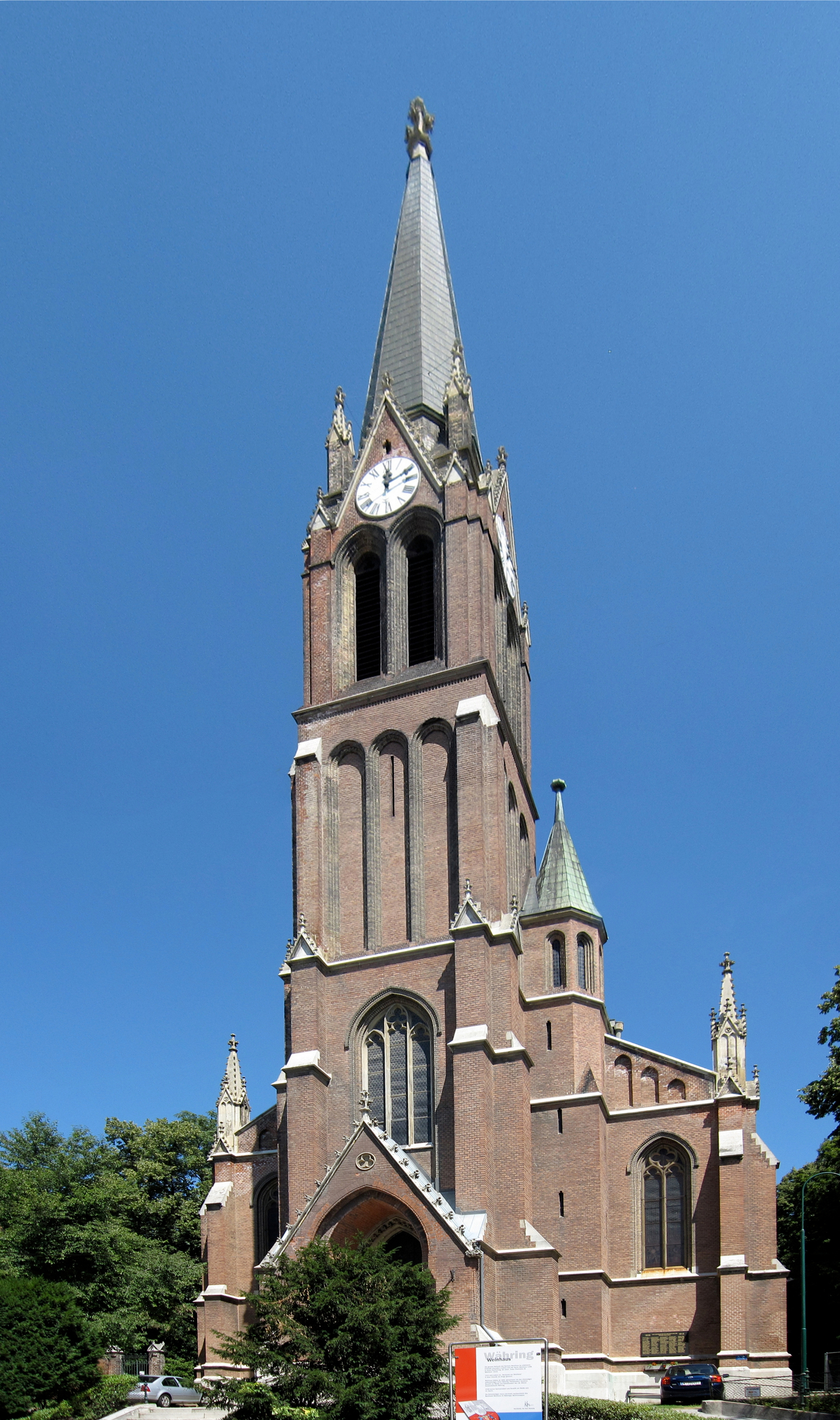 Weinhaus Parish Church in Vienna's XVIII district.